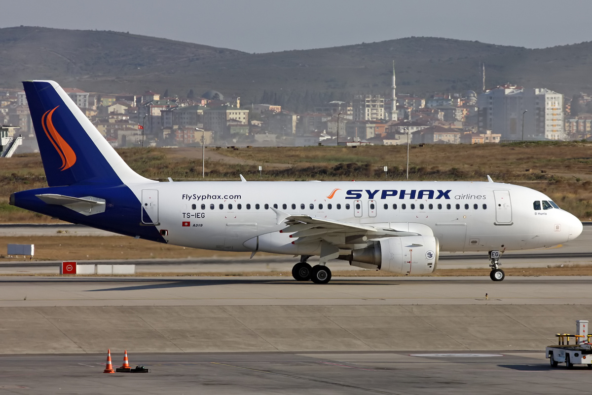 Syphax Airlines Airbus A319-112 at Sabiha Gökçen International Airport